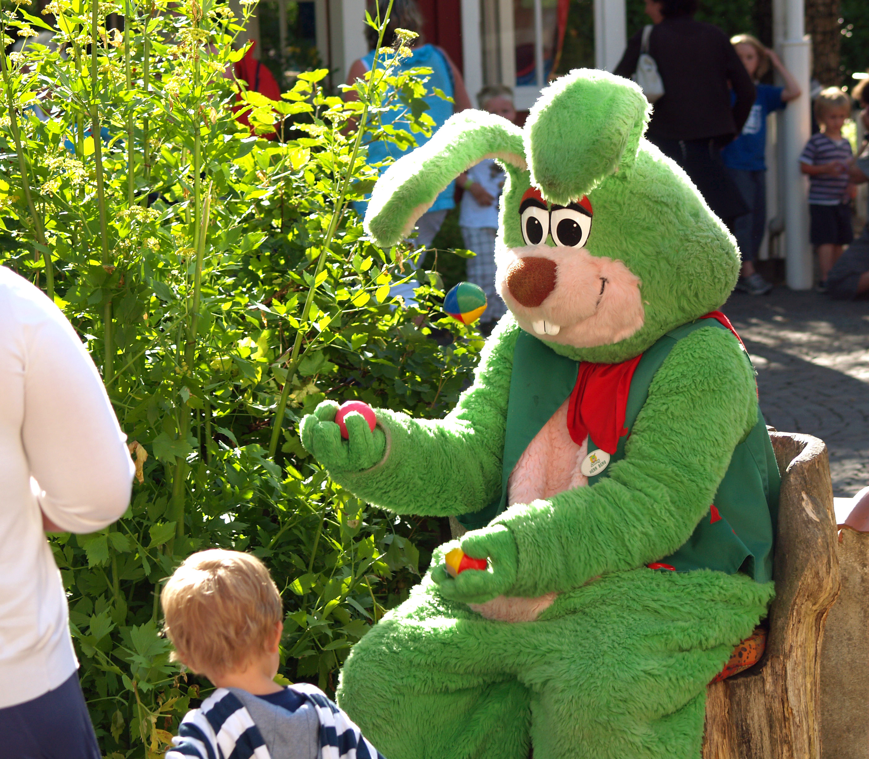 Lisebergskaninen at Liseberg in Gothenburg, Sweden.